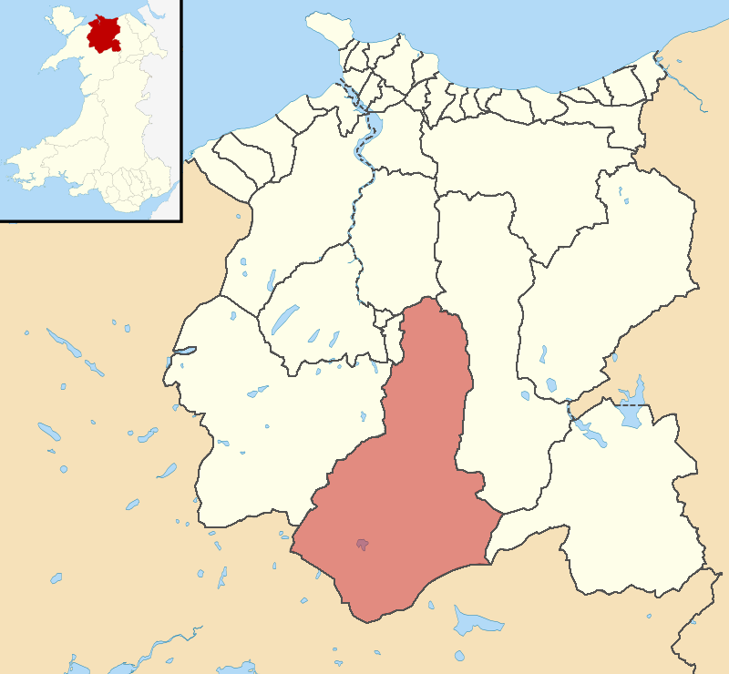 Location map of Uwch Conwy electoral ward in Conwy County Borough, Wales, which covers the communities of Bro Garmon, Bro Machno and Ysbyty Ifan.